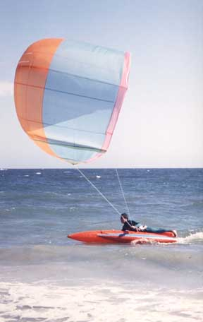 1990; Engin gonflable par les frères Legaignoux